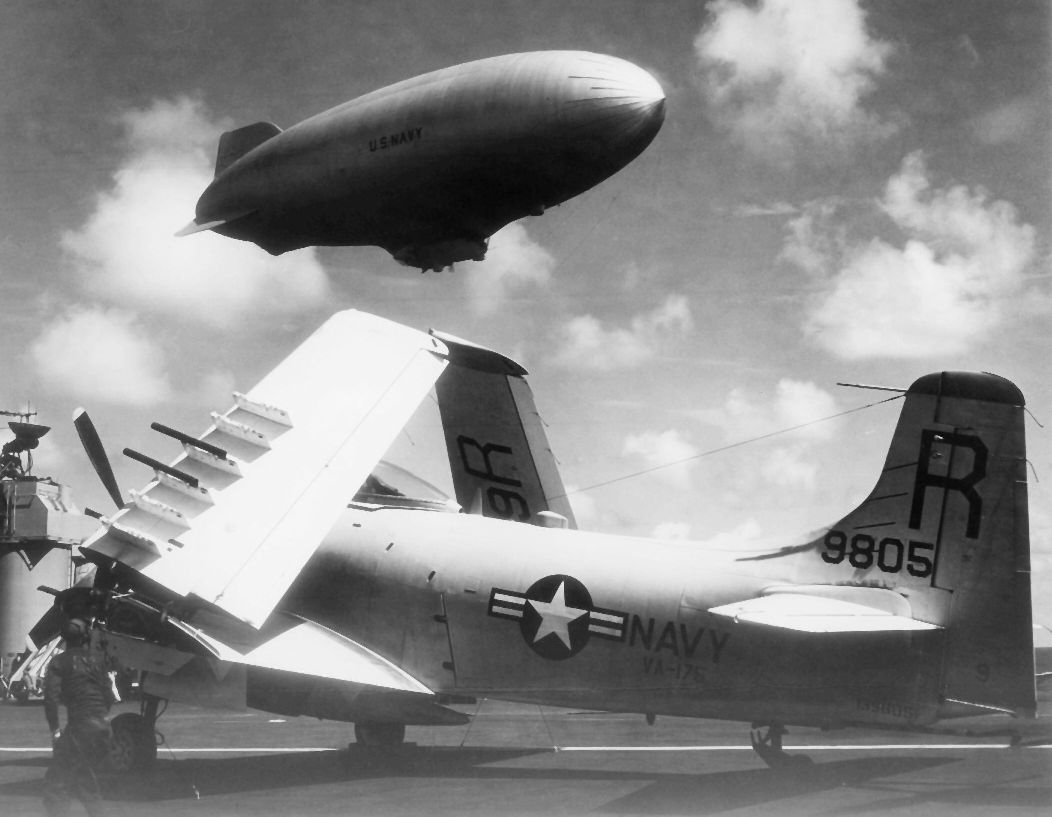 A U.S. Navy Douglas AD-6 Skyraider of Attack Squadron VA-175 "Devils' Dilpomats" aboard the aircraft carrier USS Franklin D. Roosevelt (CVA-42) at Guantanamo Bay, Cuba. VA-175 was assigned to Carrier Air Group 17 (CVG-17) aboard the FDR. Note the blimp overhead. 139805 was later lost with VA-115 when it suffered an engine failure over the Gulf of Tonkin on 14 February 1967.